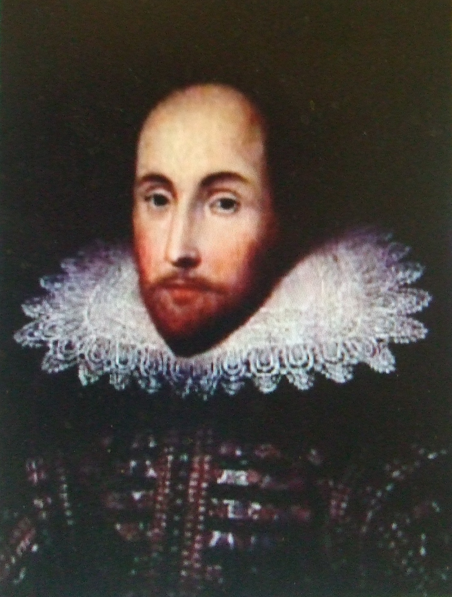 version of the Janssen portrait before cleaning in 1988